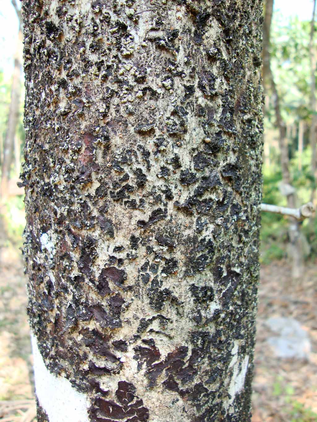 Aaval log